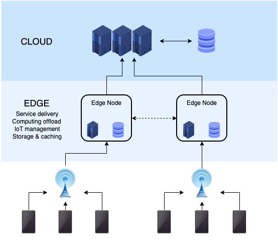 Edge computing can be seen as an intermediate layer between devices and cloud, where services are handled by distributed edge nodes